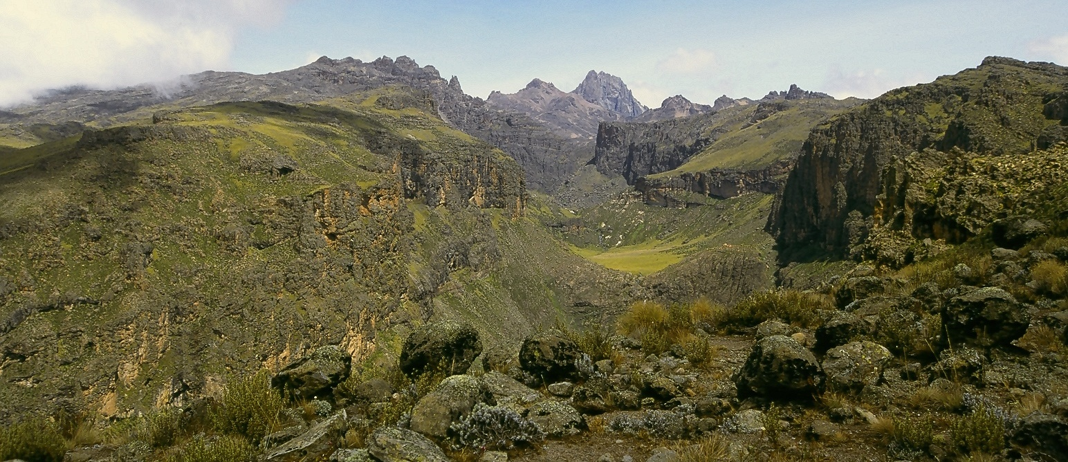 A view looking up the Gorges Valley on Mt Kenya. Batian (5,199m), Nelion (5,188m), Pt Lenana (4,985m) and The Temple can all be seen.